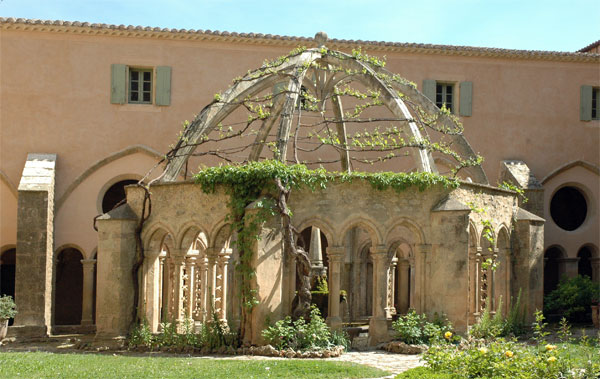 Valmagne abbey. France